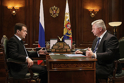 KIROV. Dmitry Medvedev with Chairman of the Federation of Independent Trade Unions of Russia (FNPR) Mikhail Shmakov.